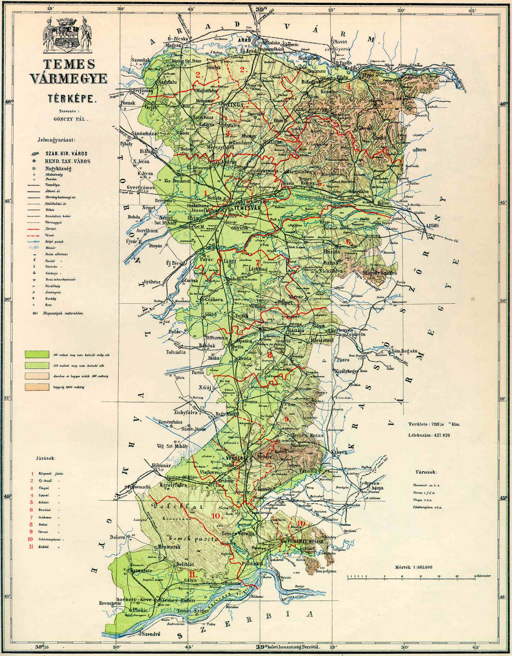 County of Temes in the pre-Trianon Kingdom of Hungary. Komitat Temes w Królestwie Węgier przed traktatem w Trianon.